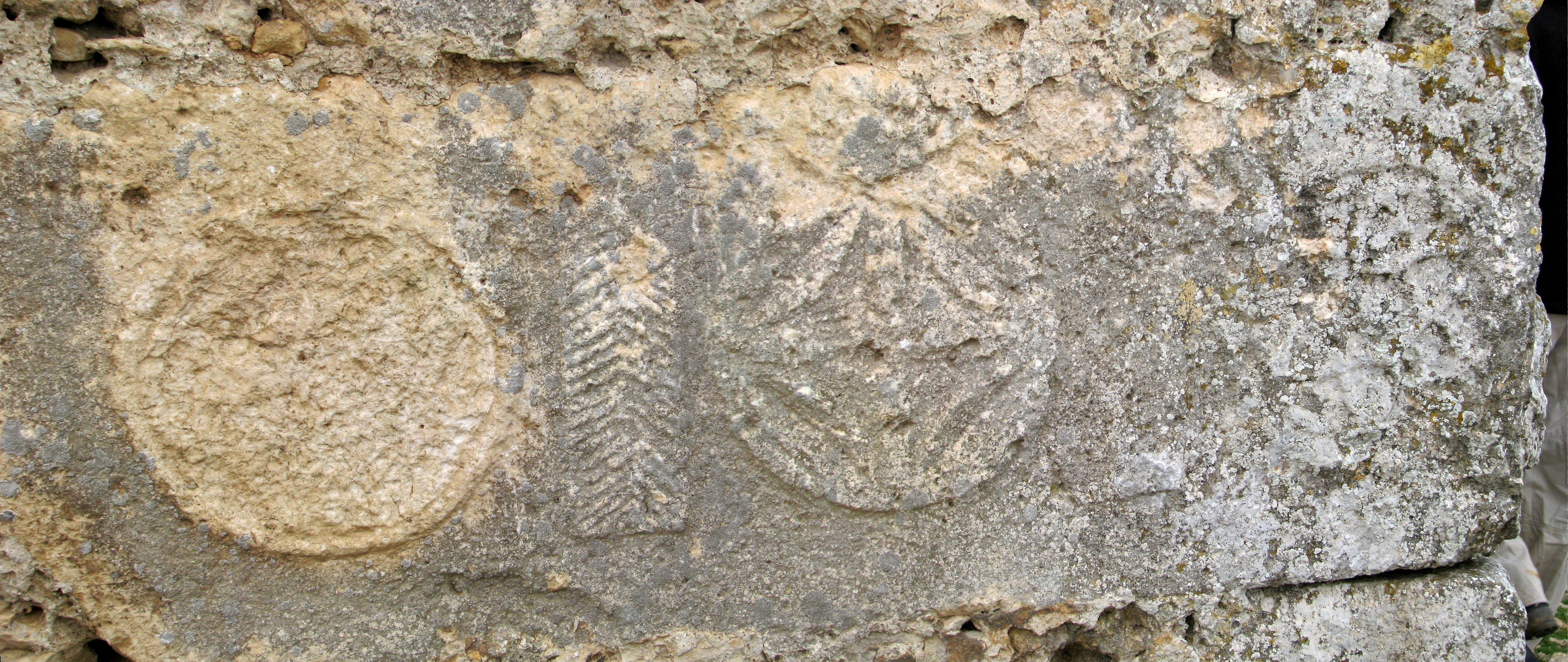 A decorated stone with a worn Magen David (Star of David), at Burj Beitin.